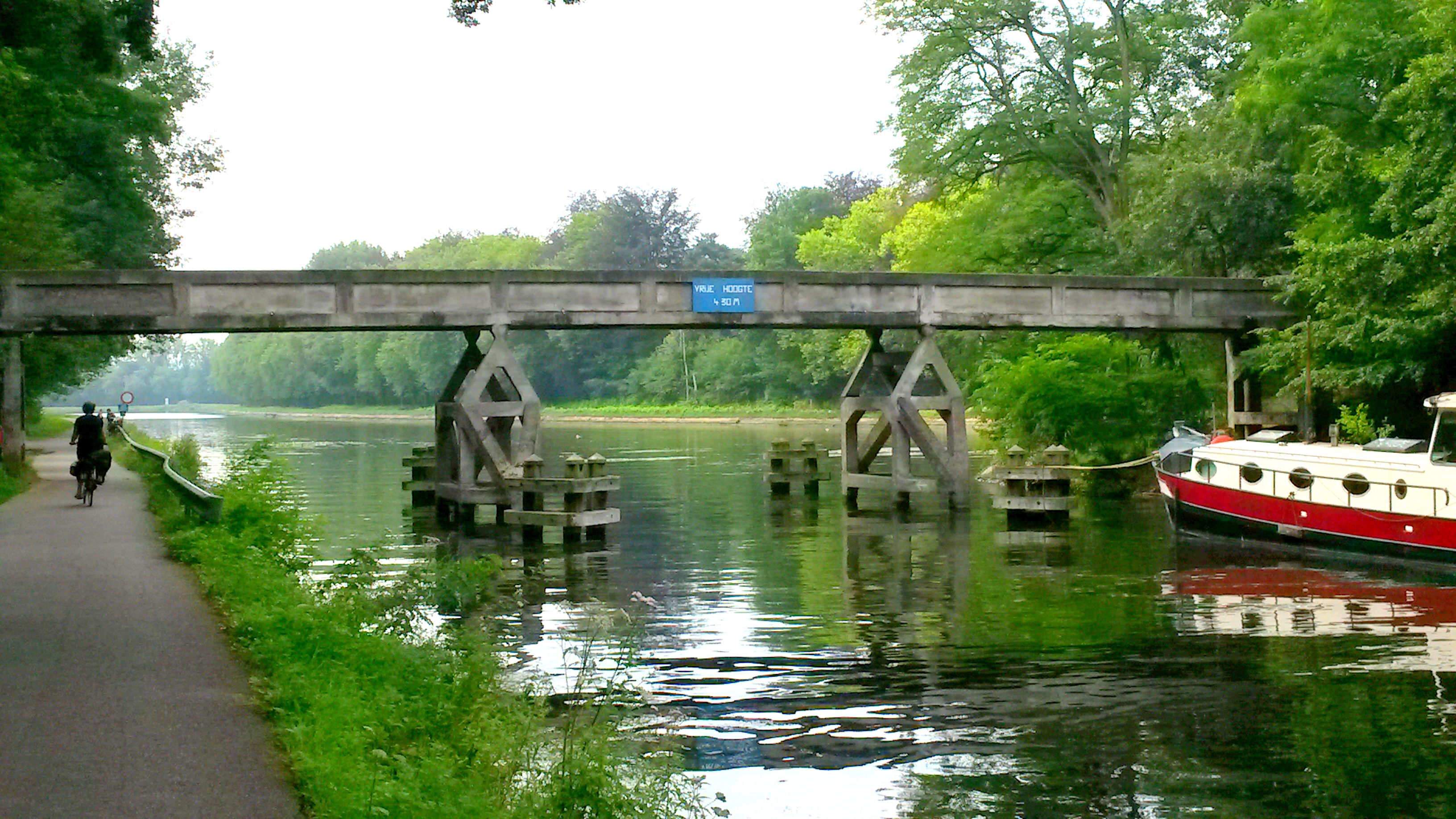 2014-07-26: Bridge over Zuid-Willemsvaart in Neeroeteren.